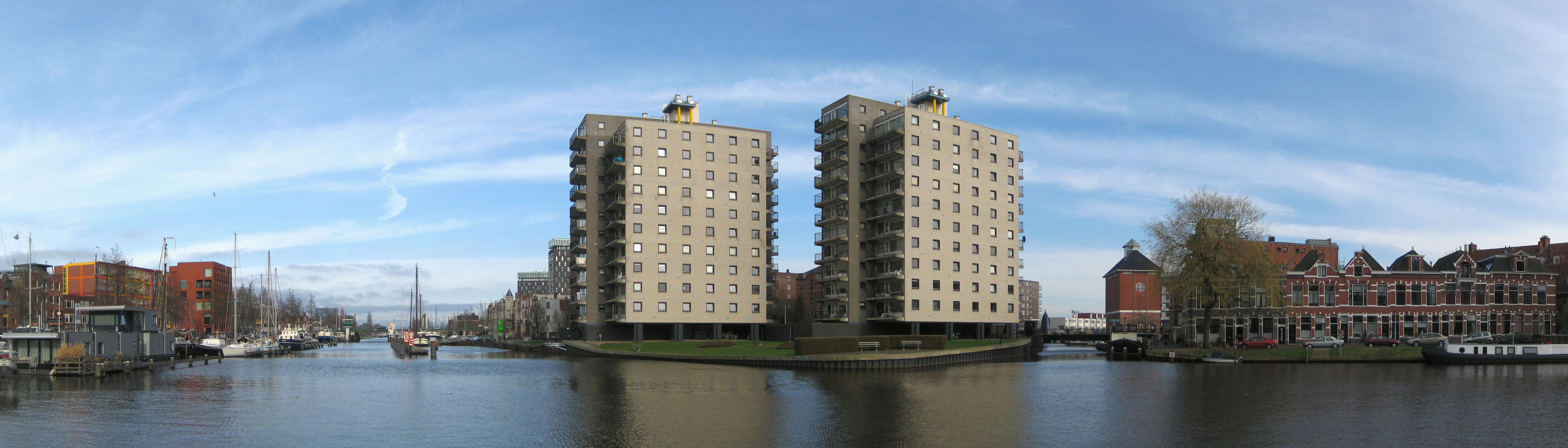 Two apartment building complexes (b. 1983-1988, OMA) in the Dutch city of Groningen.